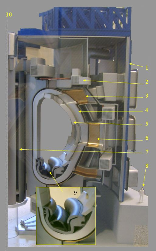 picture of model of ITER thermonuclear test reactor